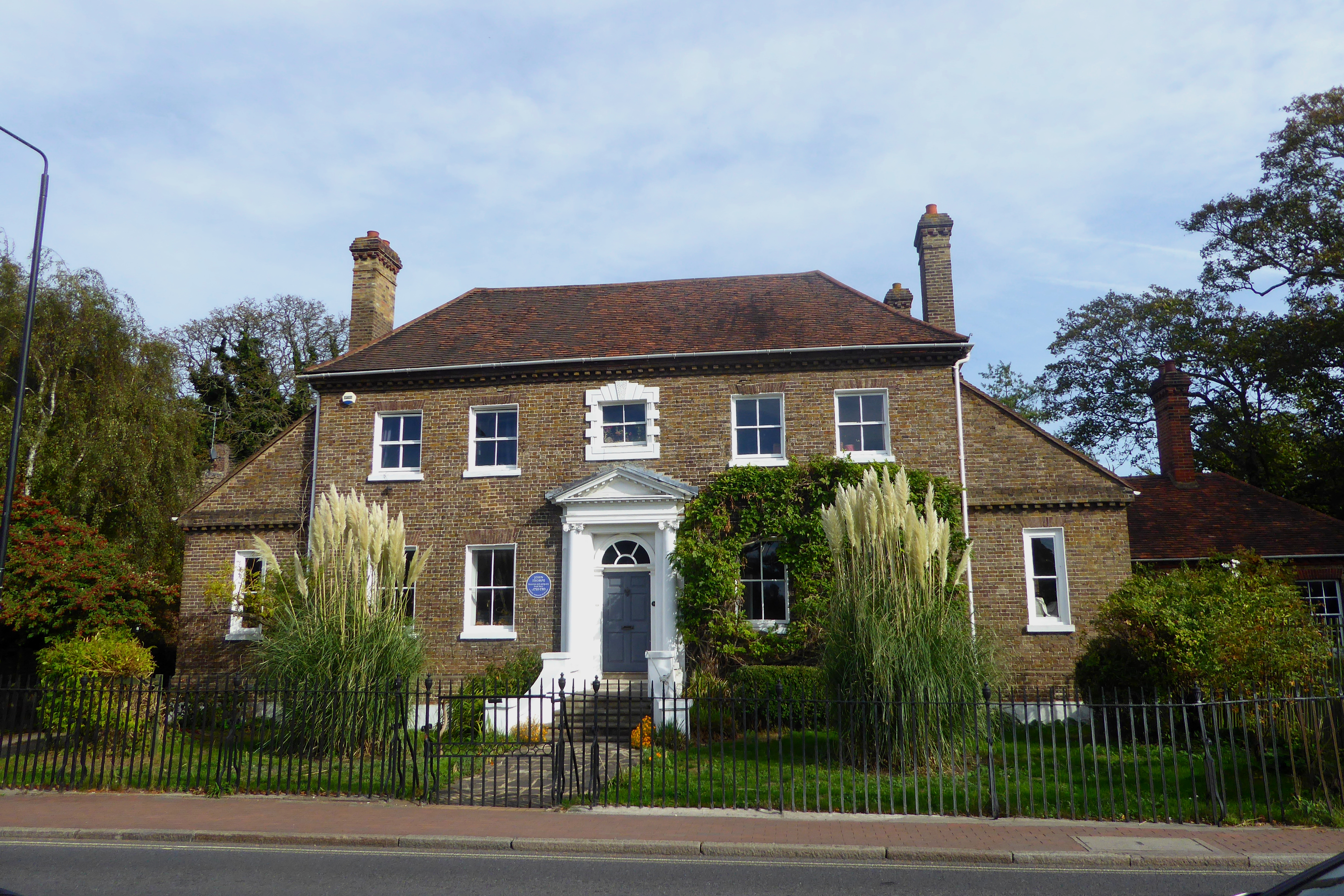 High Street House in Bexley.